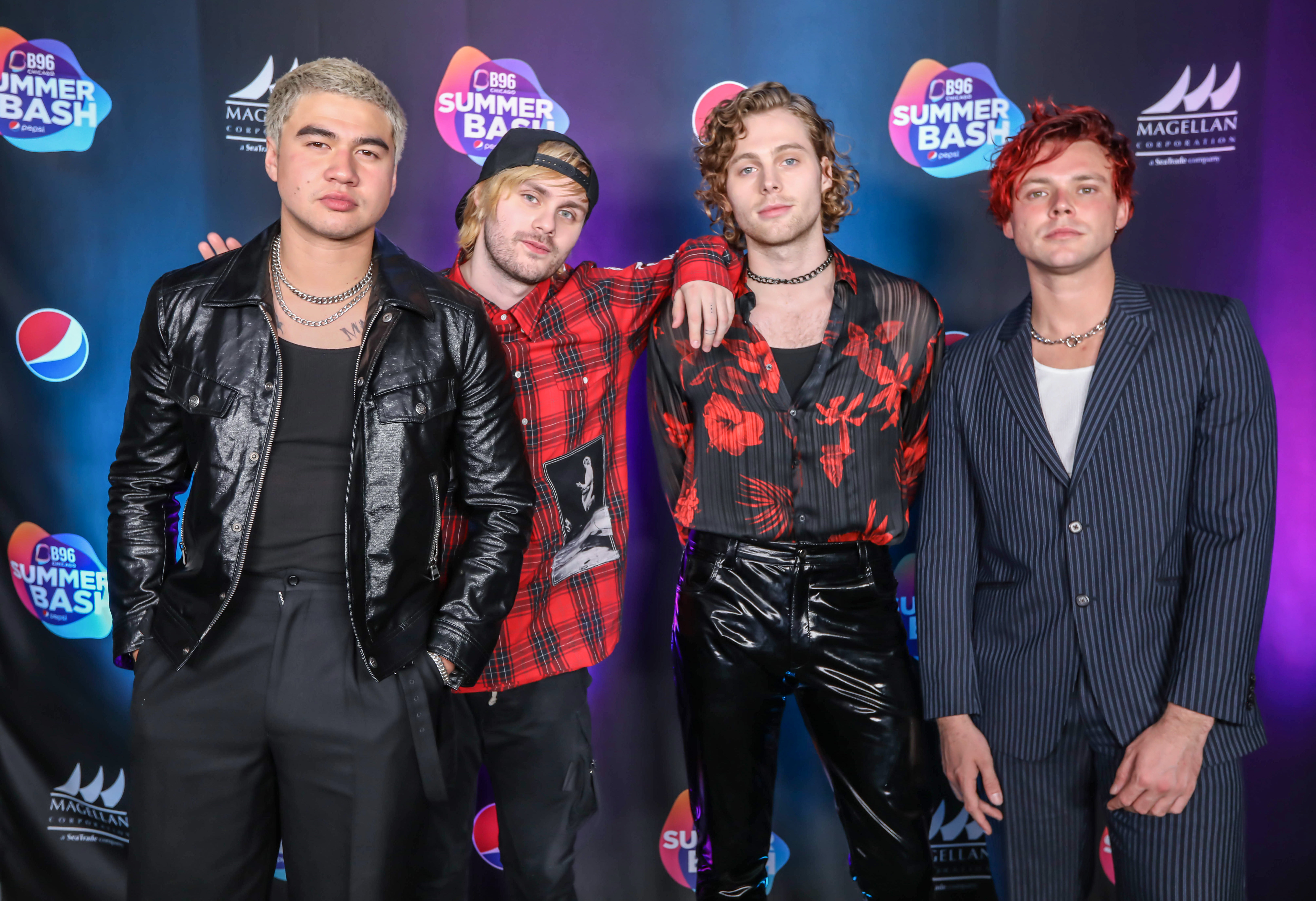 5 Seconds of Summer at the B96 Pepsi Summer Bash 2019.